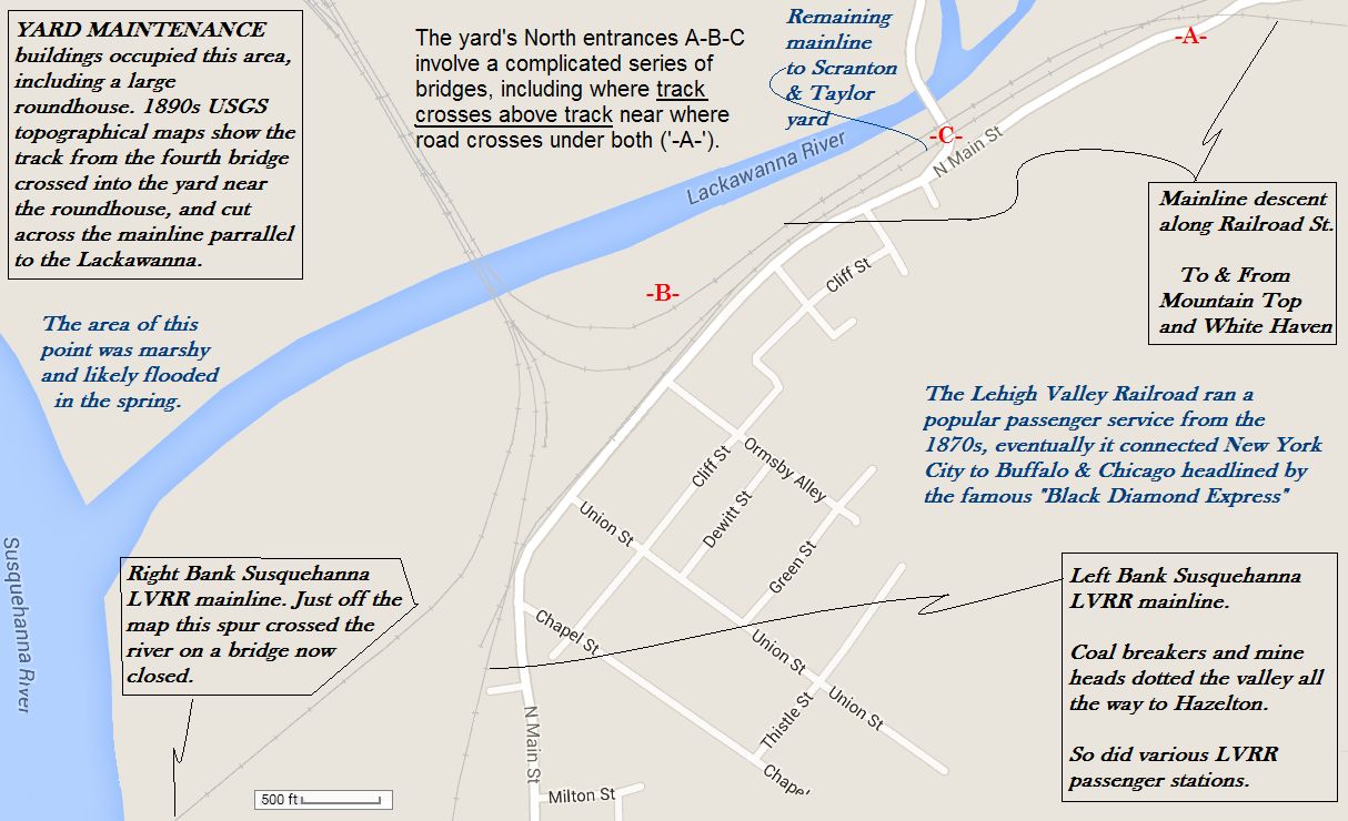 Annotated guide map showing key geographic features and discussion points for the former Lehigh Valley Railroad yard with entrance wye sited (most) on left-bank Lackawanna River in North Pittston, PA and the majority of the approximately two miles deep U-shaped yard in the township of Duryea, Pennsylvania running northerly up along the North Branch Susquehanna River from the confluence at the right-bank Lackawanna.